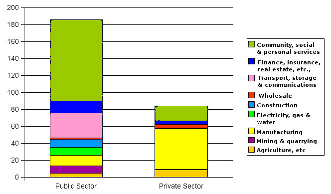 Indian employment chart for 2003, using data from: Tables 31 & 32 Economic Survey 2004-2005.